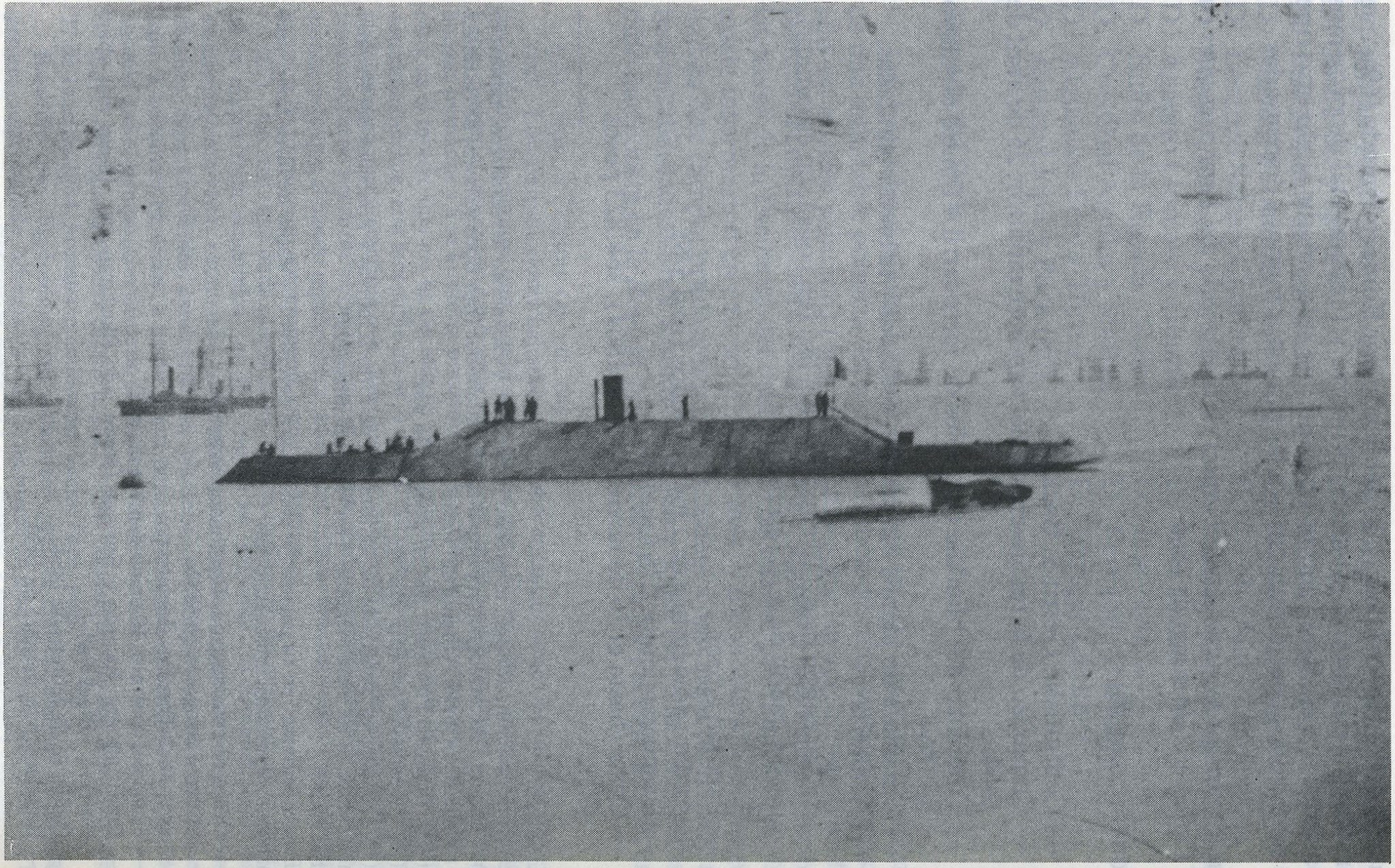 Peruvian Casemate Ironclad "Loa" anchored off Lima, Peru circa 1860s. Veteran of the Battle of Callao, May 2nd 1866.